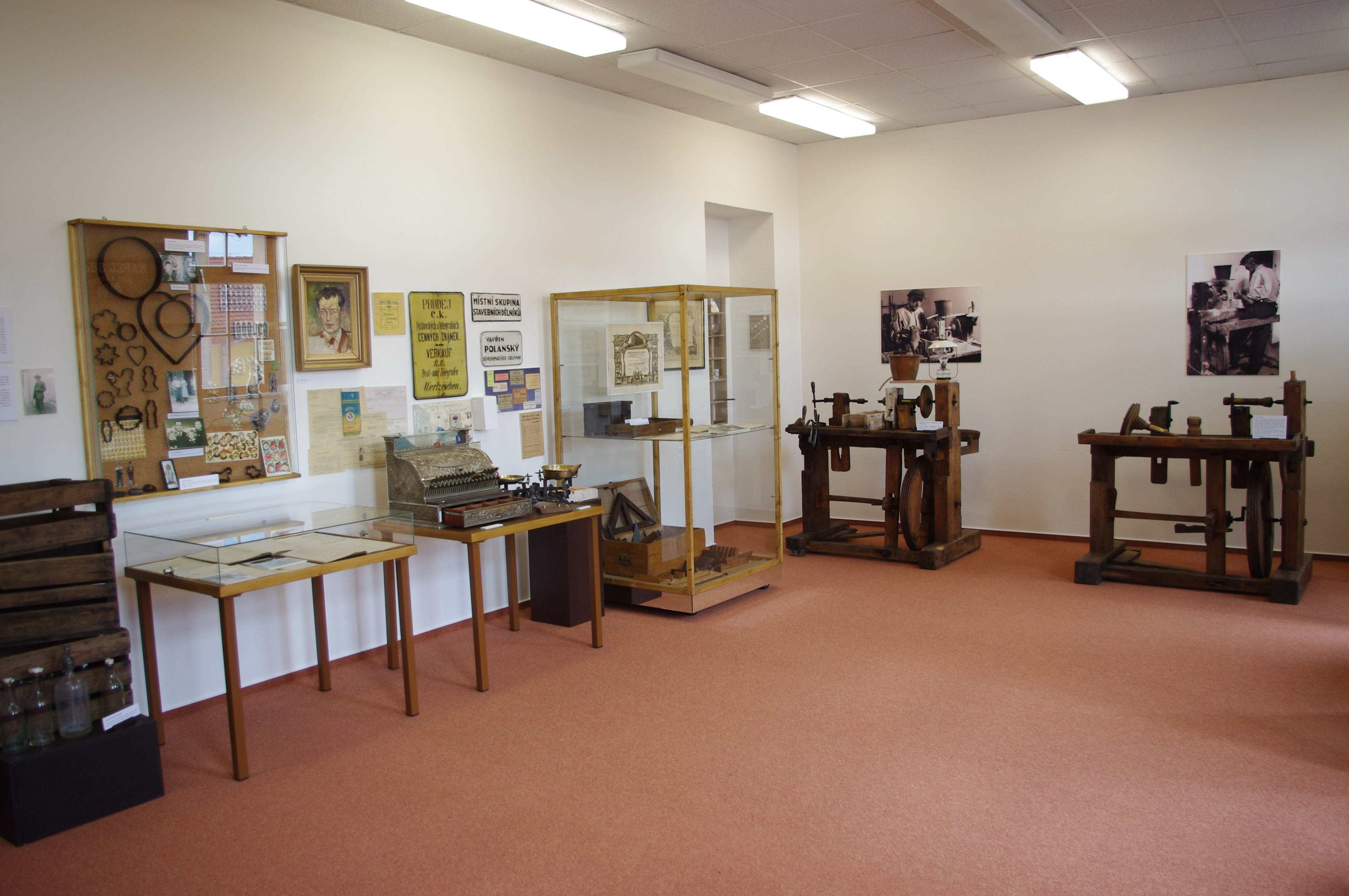 Expozice řemesel v Muzeu Bojkovska